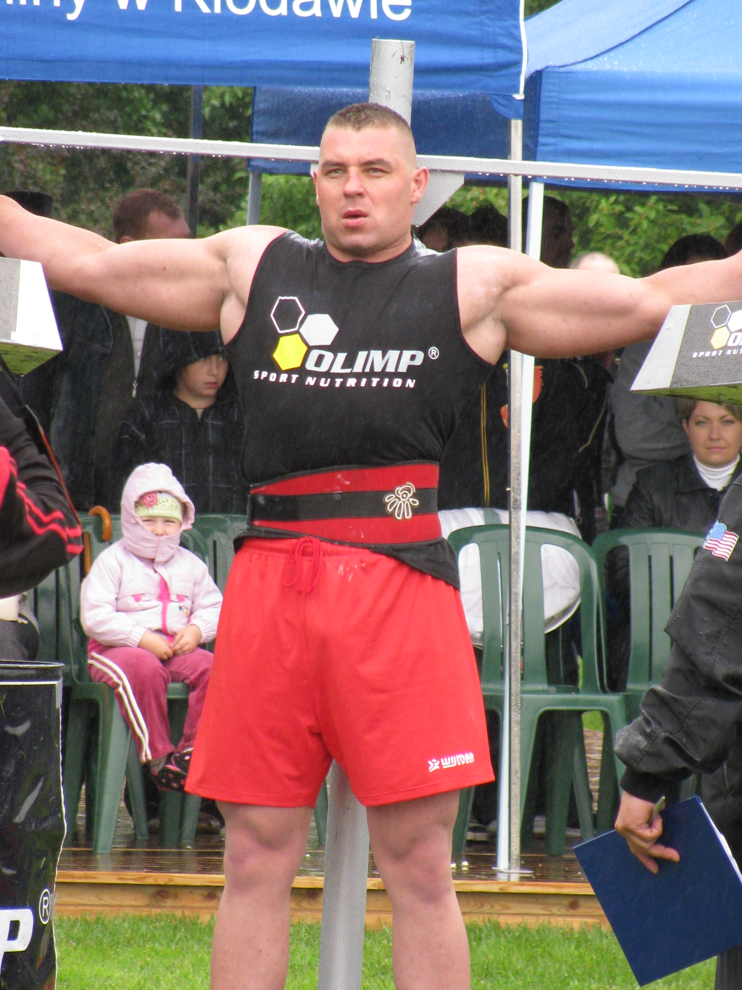 Marcin Wlizlo - a strength athlete from Poland